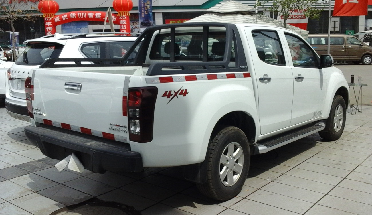 Isuzu D-Max II photographed in Xi'an, Shaanxi province, China.